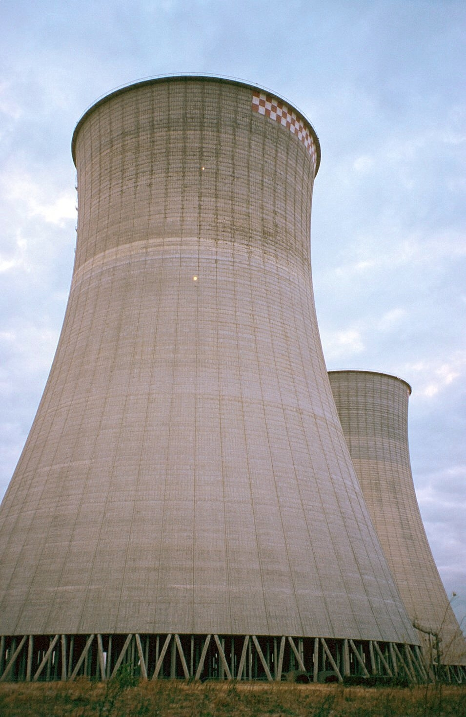 two cooling towers of the nuclear power plant near Stendal, Germany (meanwhile demolished completely)